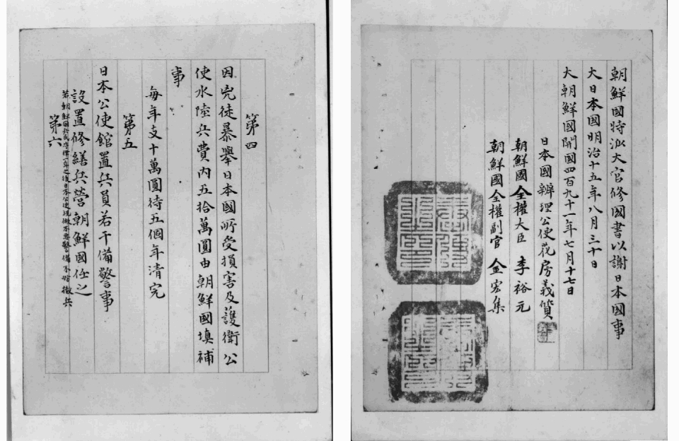 Treaty of Chemulpo, page 3-4